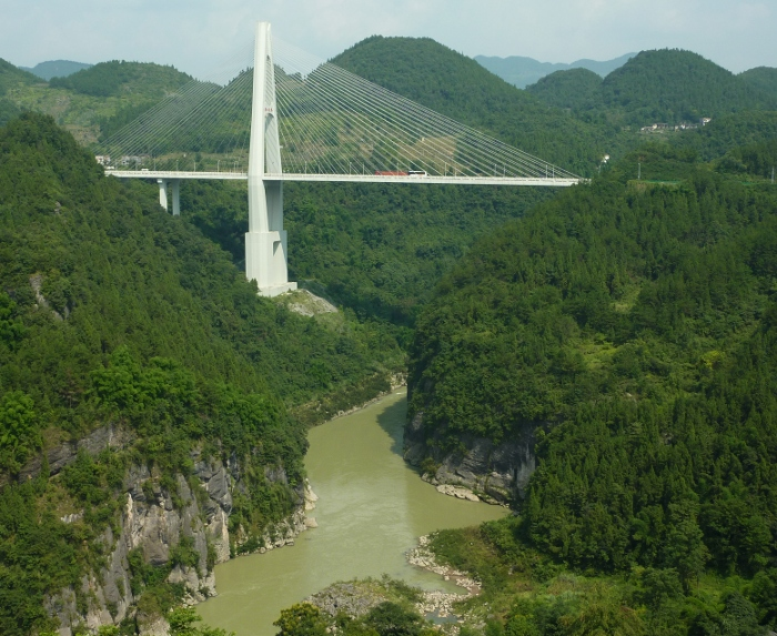 The Qing Jiang Bridge in Hubei province, China